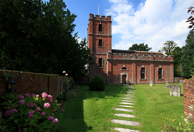 Church of St Mary - Avington The parish church of St Mary was built in 1768-71 by James Brydges of Avington Park, 3rd Duke of Chandos. As well as containing memorials inside to the Brydges family, there are also some unusual box pews. The church is considered a perfect example of the late Georgian period.